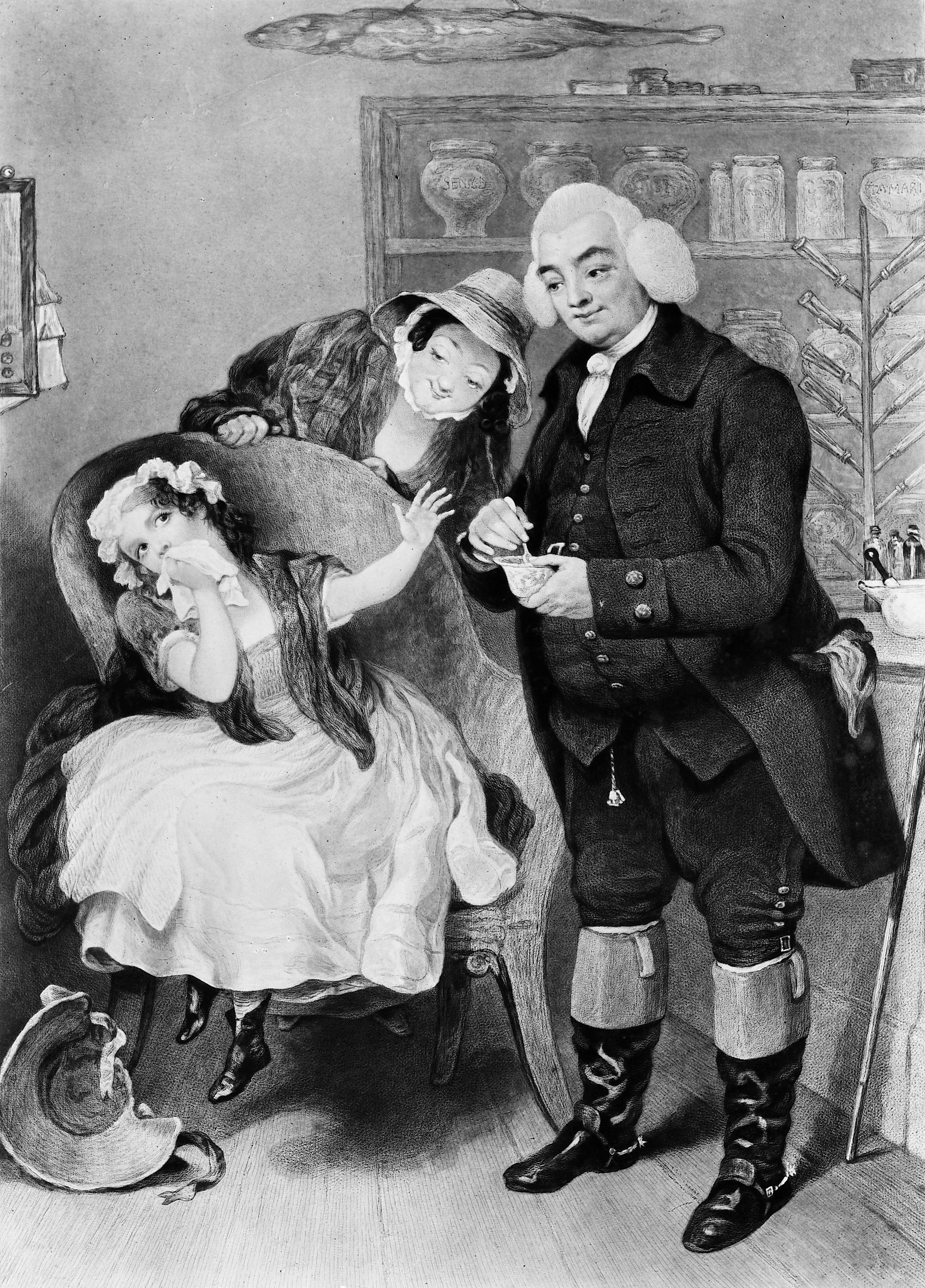 A physician stirring medicine in a cup which is refused by a repulsed little girl, her mother stands behind her smiling. Mezzotint by J. Jervis, 1842, after W. White. Iconographic Collections Keywords: J. Jervis; William Johnstone White; Apothecary